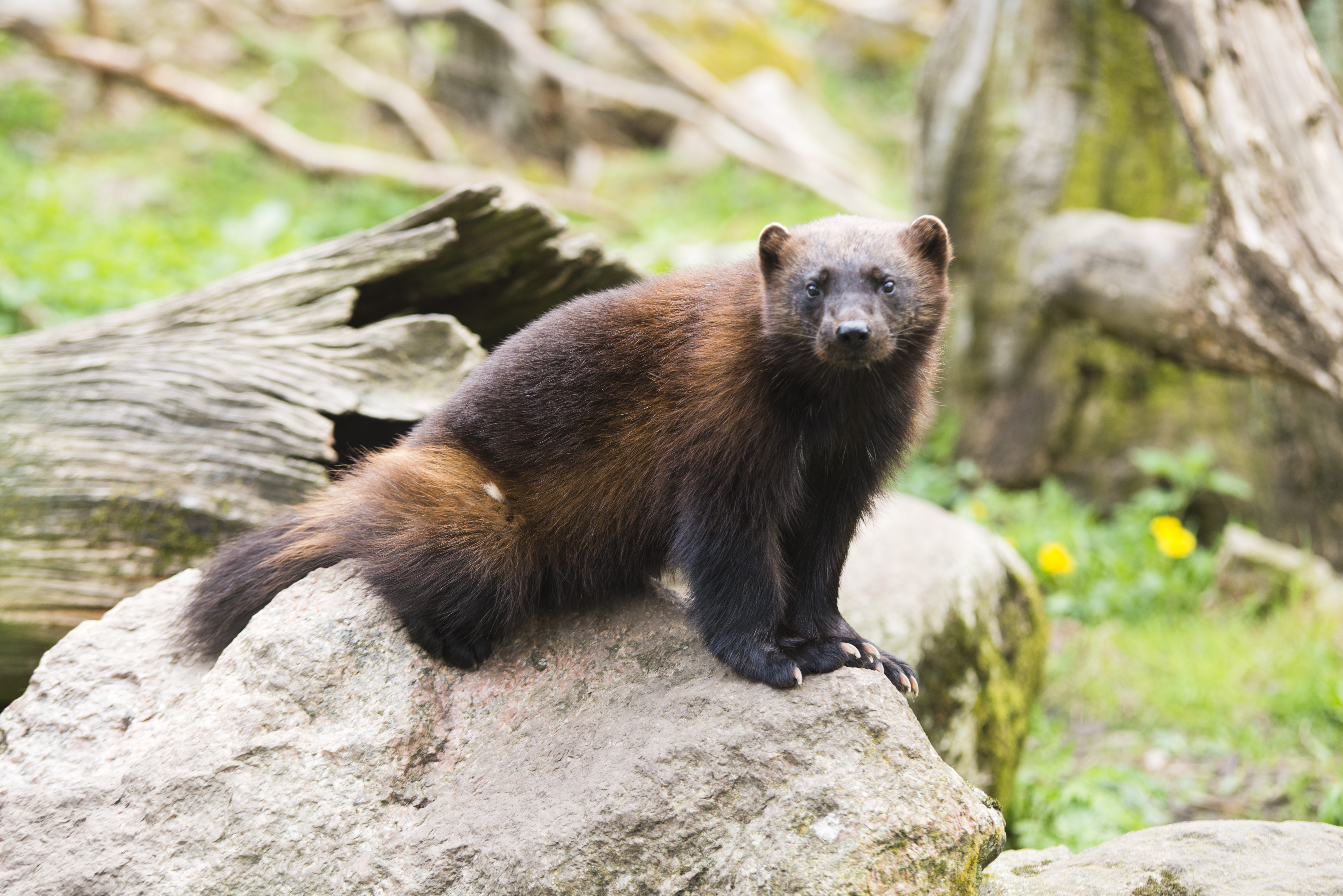 Wolverine in Sweden during spring time